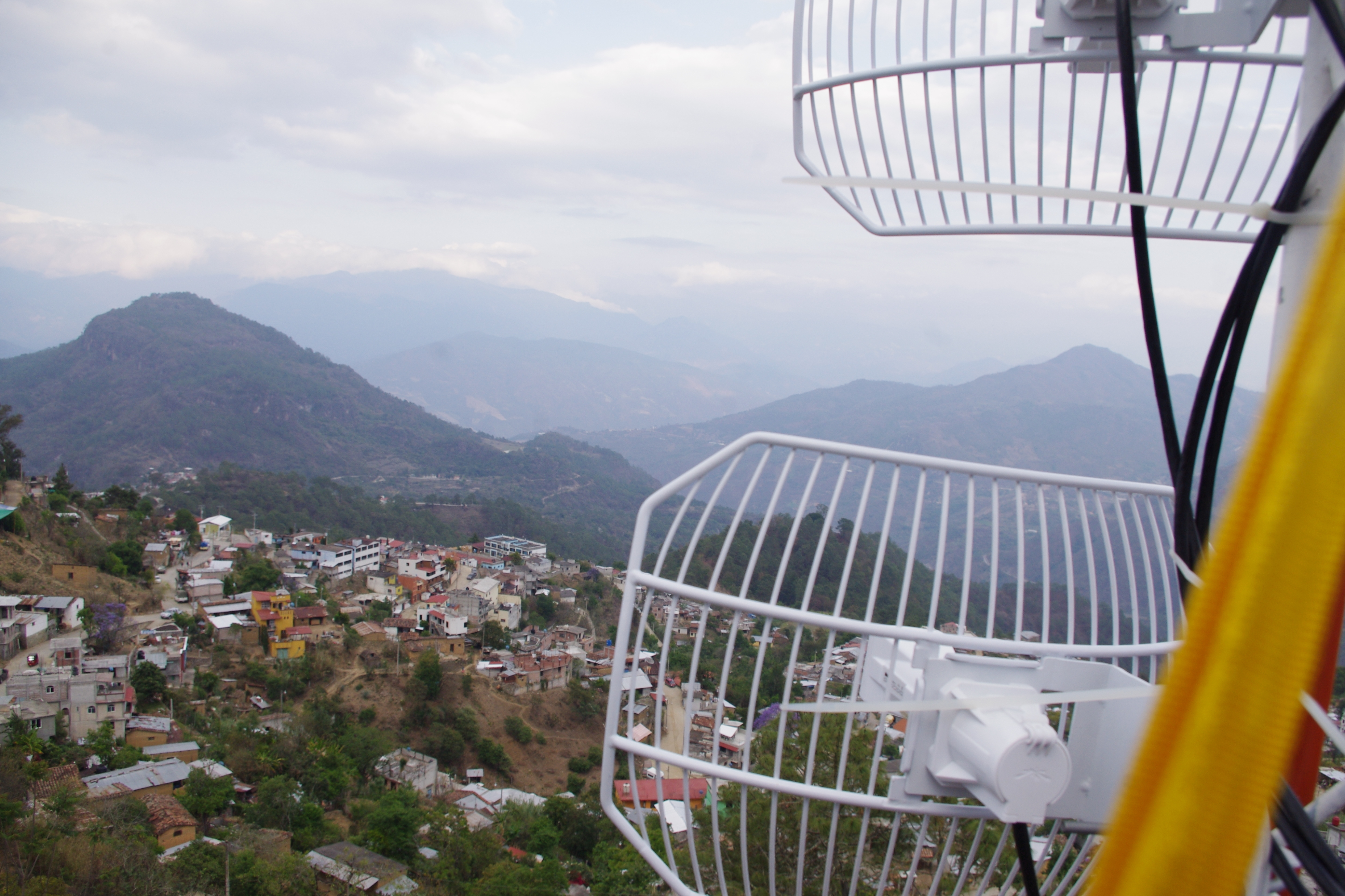 Rhizomatica's antenna in Alotepec, Oaxaca, Mexico.